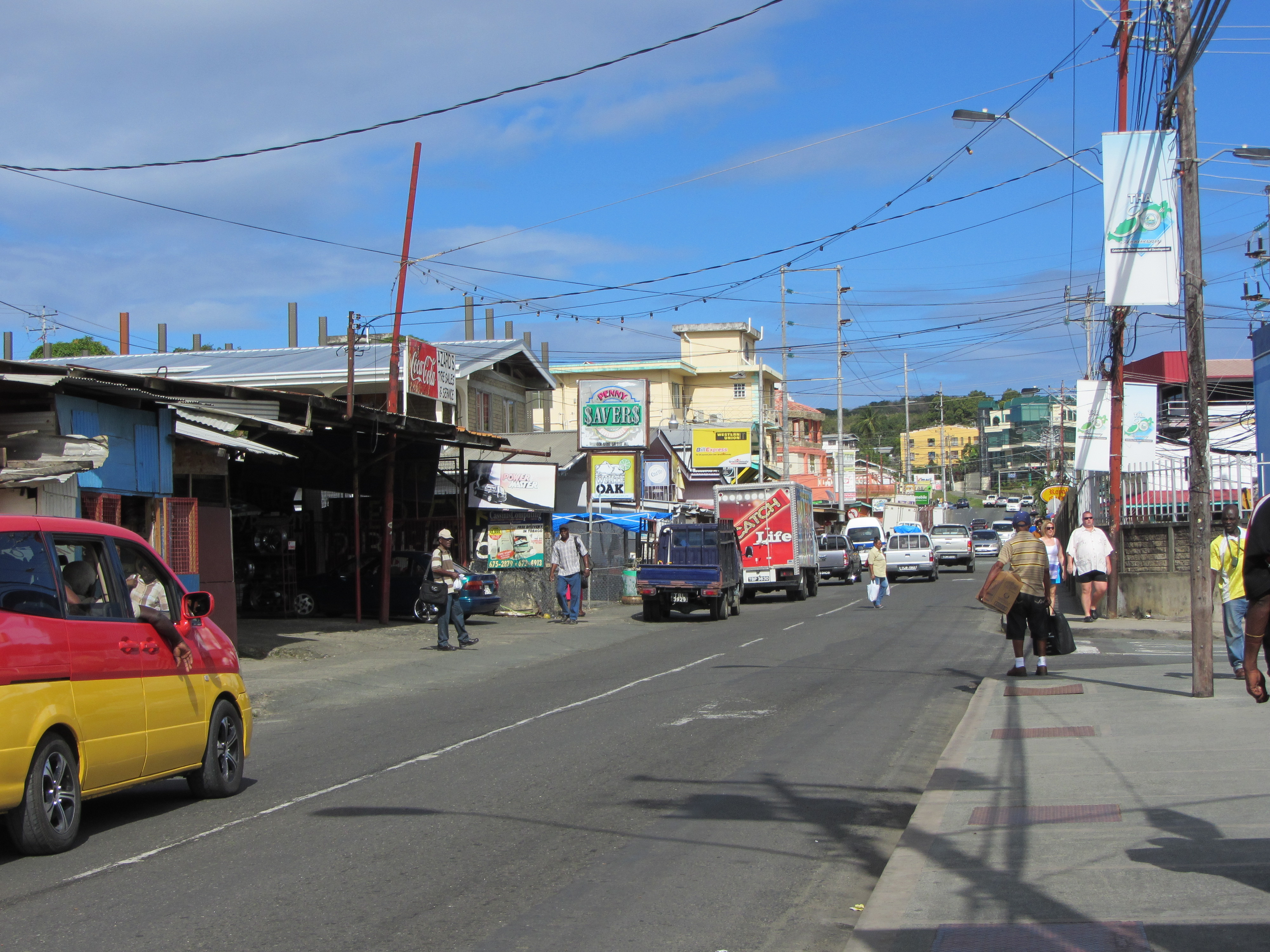 Wilson Road in Scarborough, Tobago